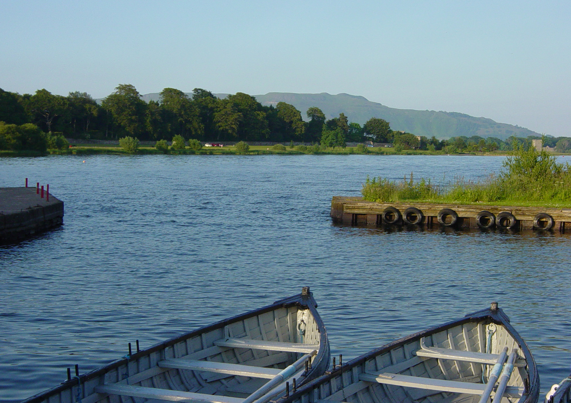 View looking east across Loch Leven from Kinross, taken by me (Euchiasmus) on 28th June 2005 at 20:12